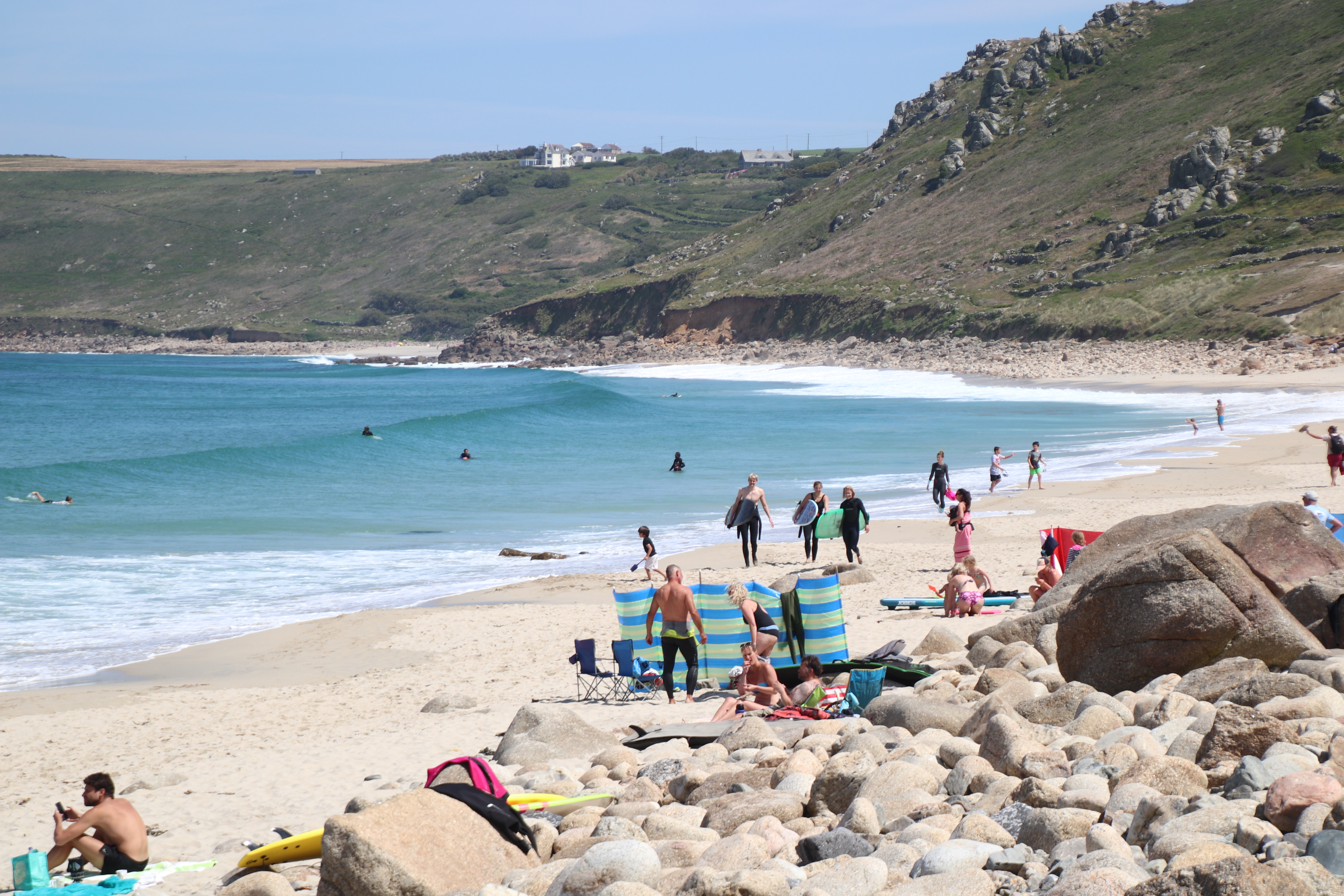 Sennen Cove Beach This photo was taken by Tom Corser and is © Tom Corser 2020. This photo may be reproduced under the terms of the Creative Commons Attribution-ShareAlike 3.0 Unported Licence [1] (unless otherwise stated). Please credit this photo Tom Corser If using this photo, make sure you properly credit and specify the licence that this photo is licensed under. (E.g. "Photo by Tom Corser Licensed under Creative Commons Attribution-ShareAlike 3.0 Unported Licence: If you would like to use this photo under a different license, please contact me via or . Attribution: Tom Corser